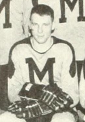 Willie Marshall, circa 1950